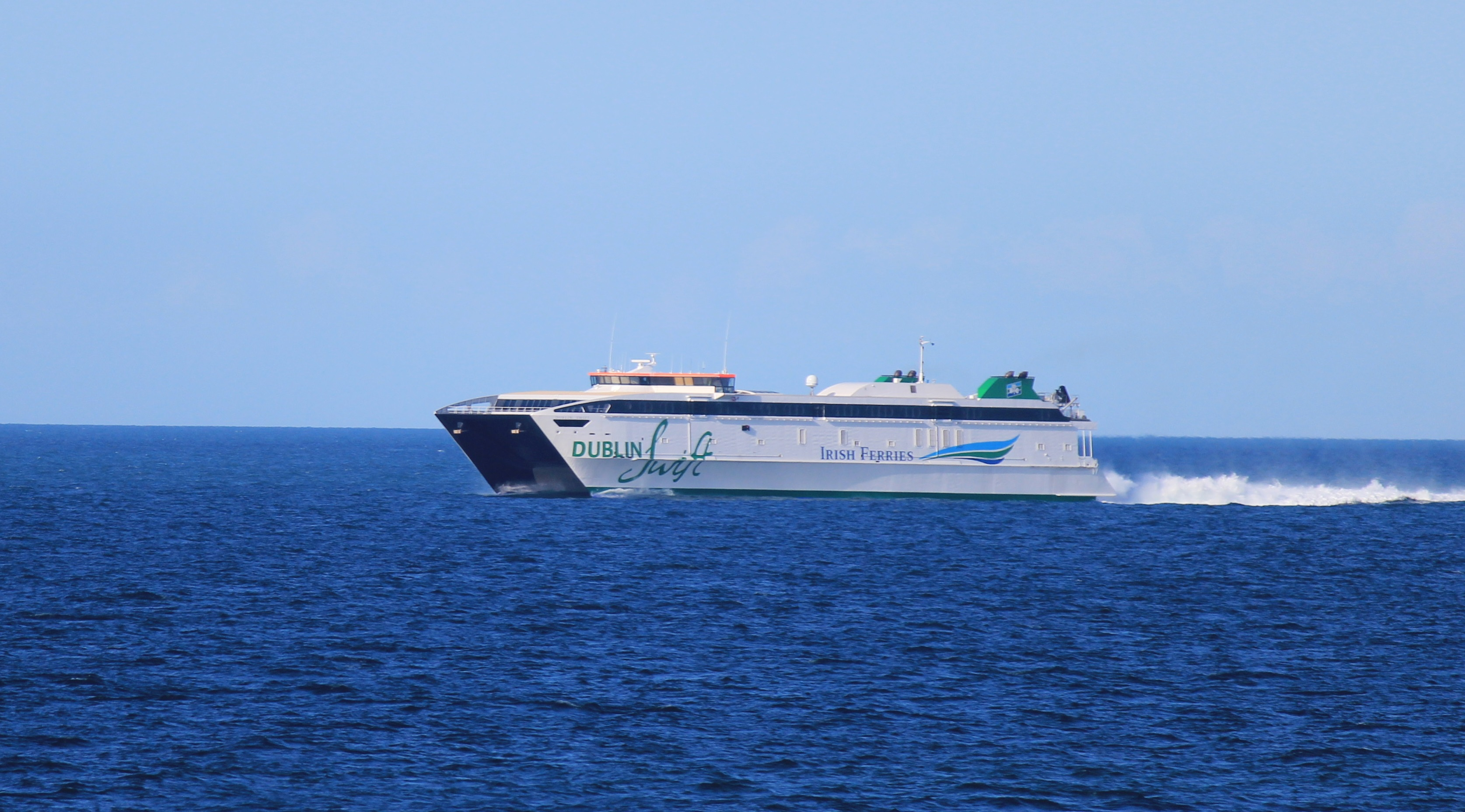 MV Dublin Swift, an Irish Ferries catamaran en route between Holyhead and Dublin Port in August 2018.